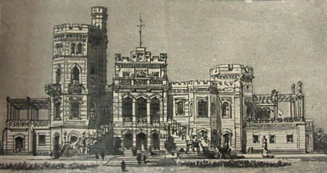 Illustration of Windsor Palace in Siam (Thailand), from the 19 September 1891 issue of The Graphic